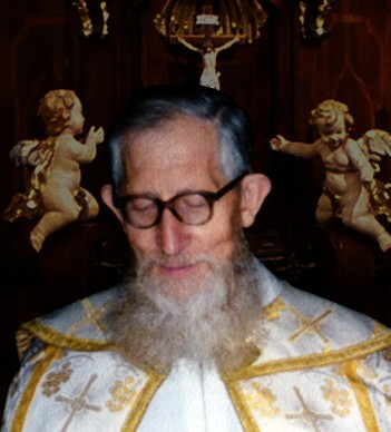 Antonín Zdeněk Kovář OFMCap, catholic priest, Třebíč-Jejkov parish, 1980-2000